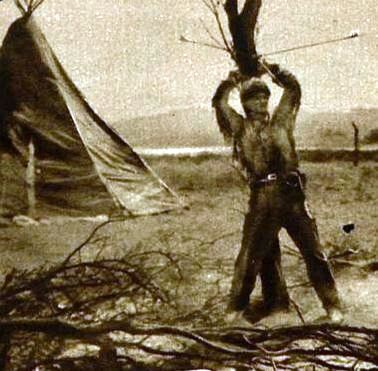 Still from the American western film serial Winners of the West (1921) with Art Acord, on page 41 of the December 1921 Screenland.